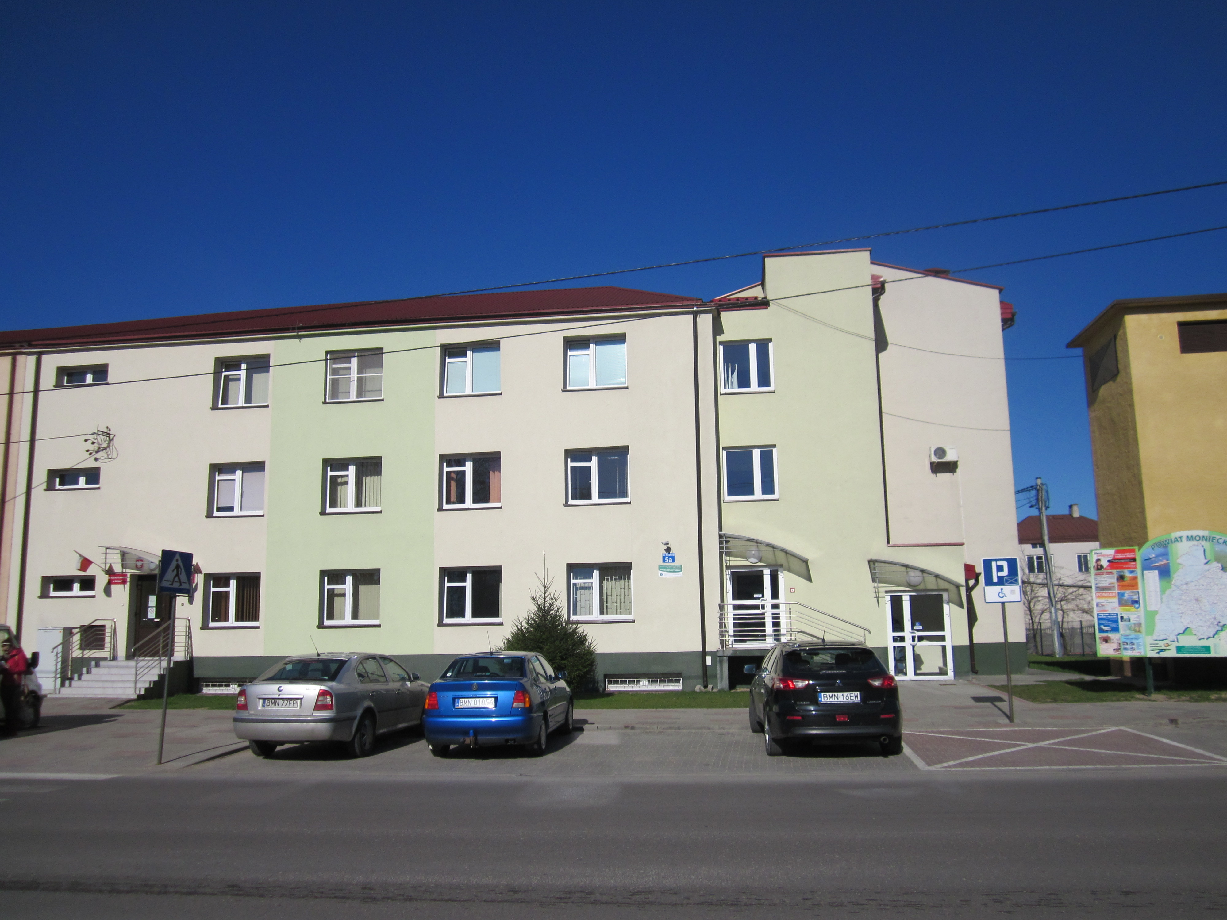 Buildings, District Office in Mońki, Słowacki 5a street